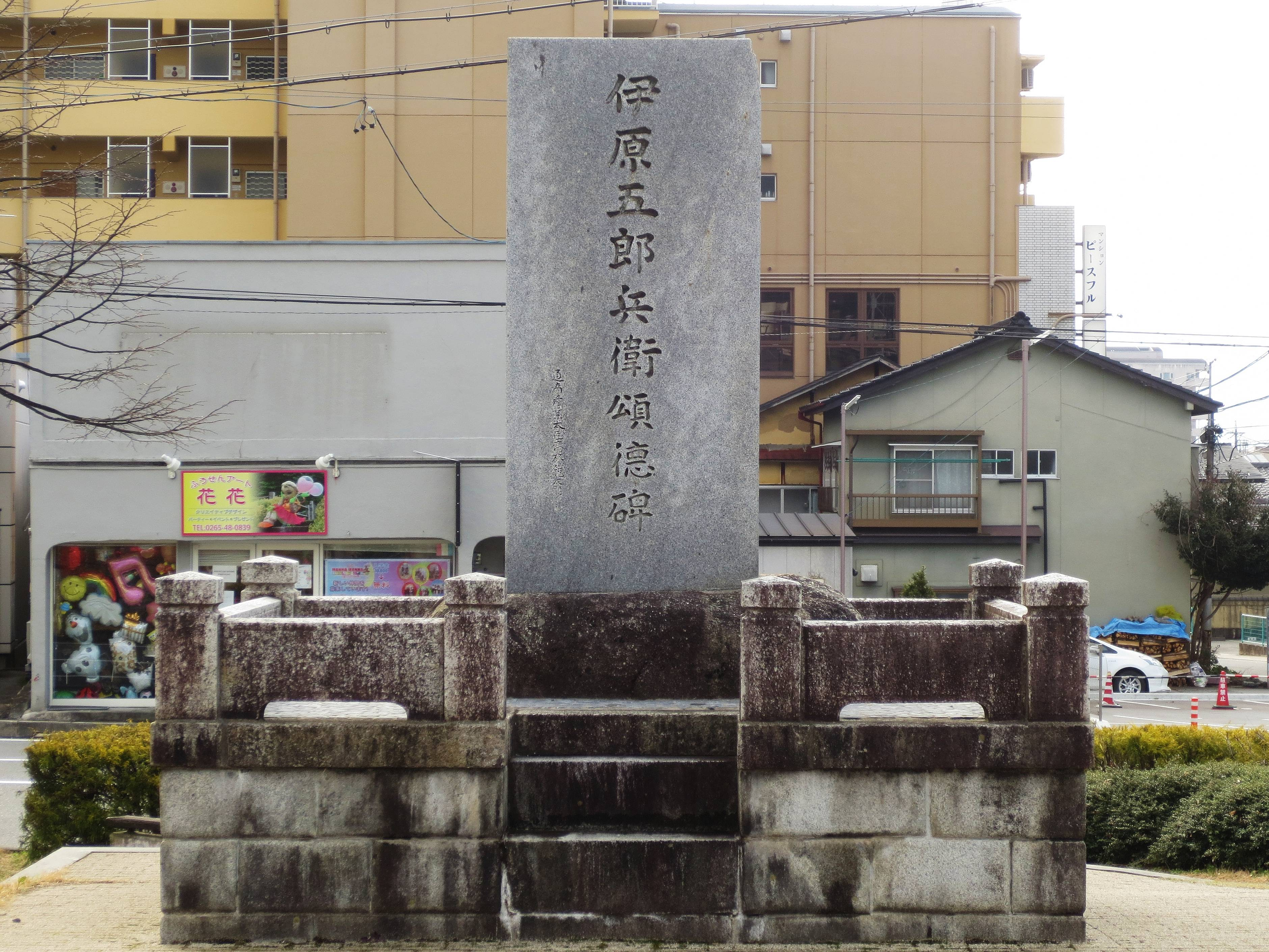 Ihara Gorobei monument.